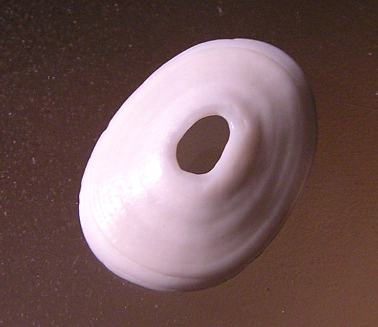 Cosmetalepas africana Tomlin, 1926; a keyhole limpet from the family Fissurellidae; South Africa